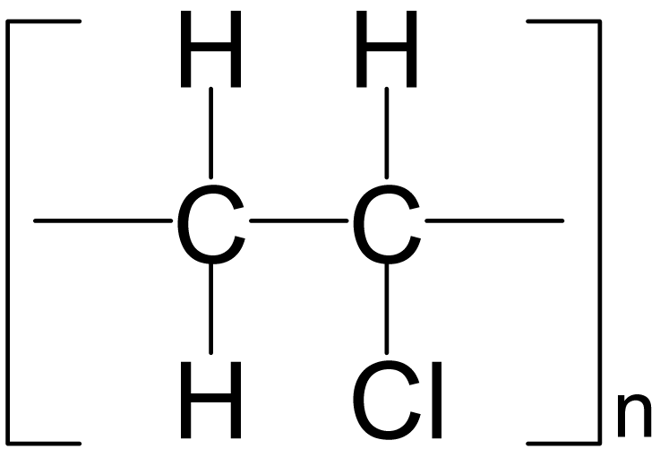 Structure of Polyvinylchloride (PVC) / Struktur von Polyvinylchlorid (PVC)